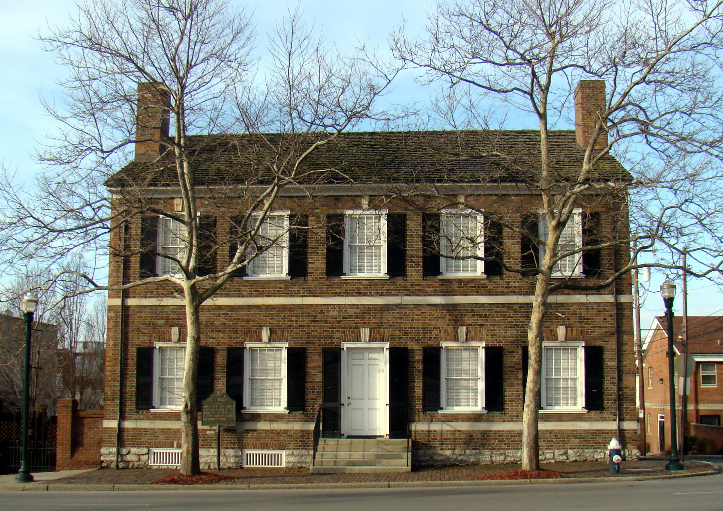 Childhood home of First Lady Mary Todd Lincoln located in Lexington, Kentucky. The current address is 578 West Main Street, Lexington, Kentucky.